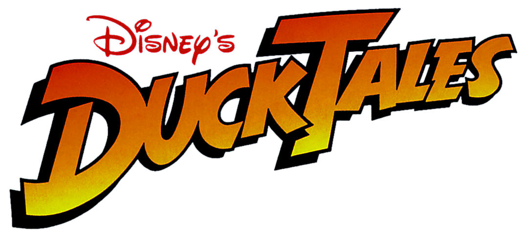 Ducktales 80s logo from the NES video game cover.